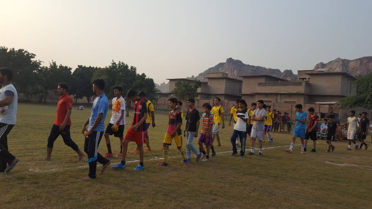 match starting views